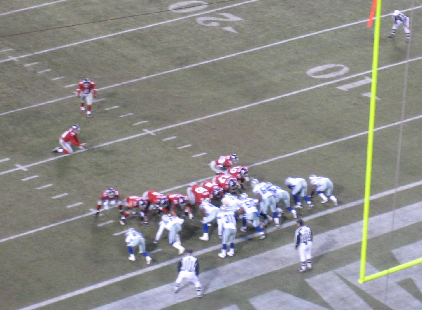 The New York Giants attempt an extra point in a December 2006 game against the Dallas Cowboys.